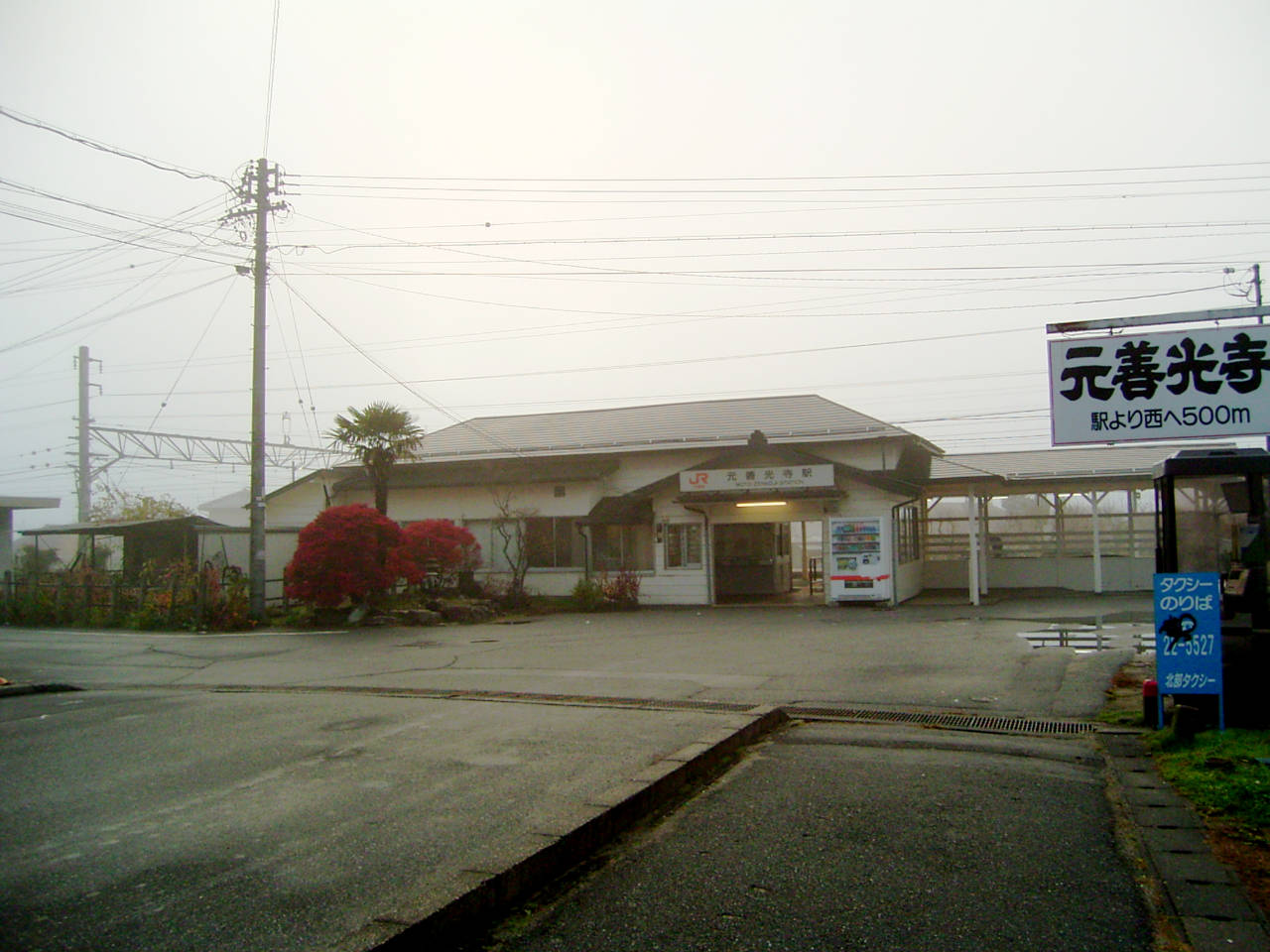 Motozenkoji station Nagano Japan